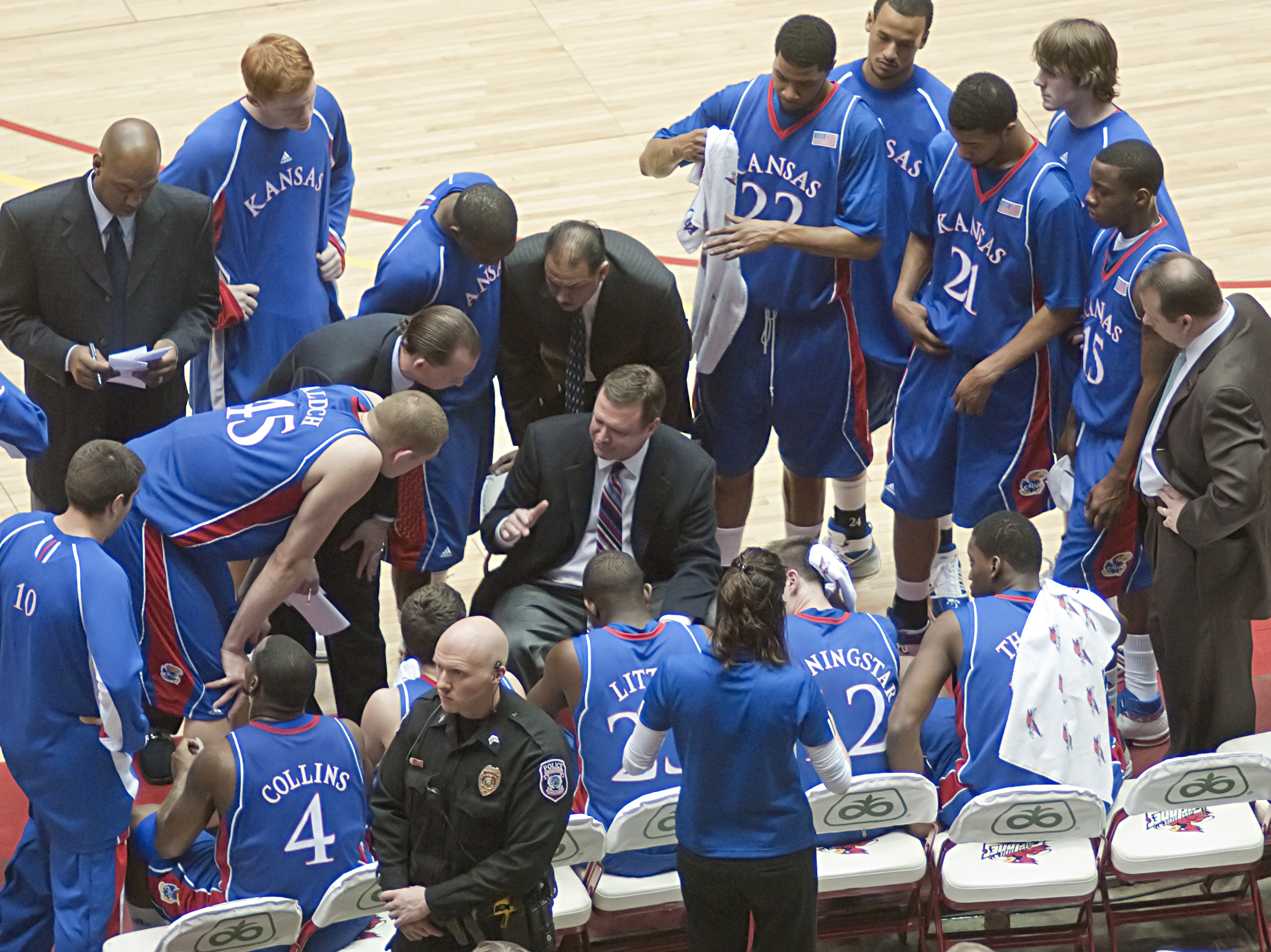 Bill Self and Kansas Jayhawks basketball players against Iowa State.